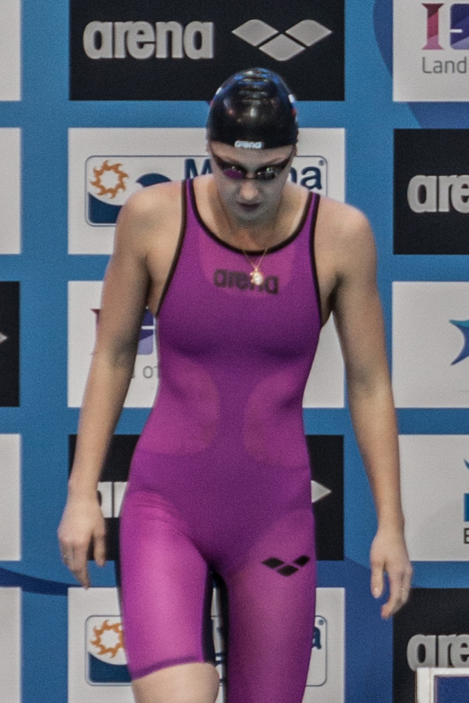 Swimmer Daria Ustinova at the 2015 European Short Course Swimming Championships in Netanya